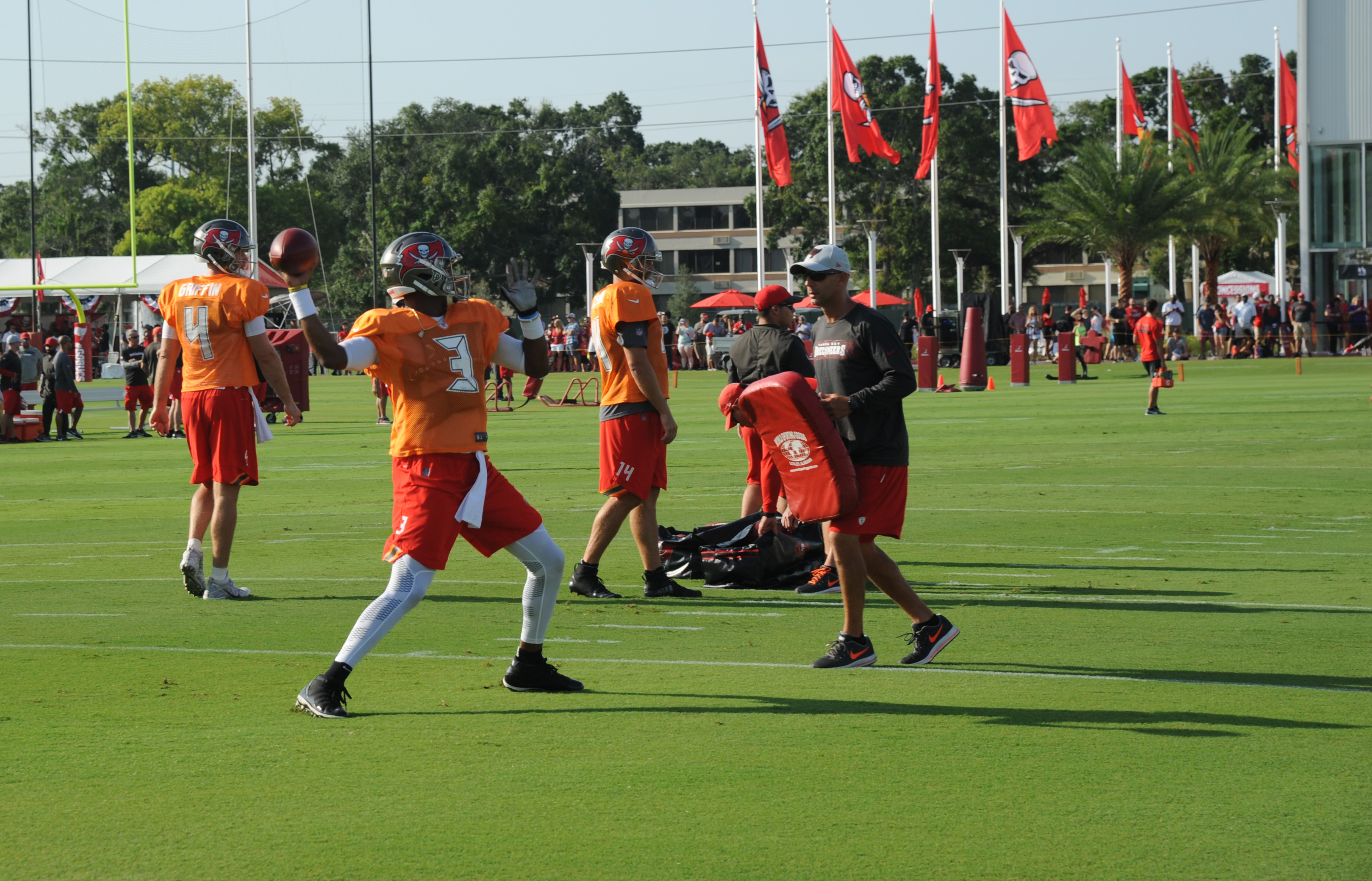 Tampa Bay Buccaneers Quarterback Jameis Winston throws during training camp on July 28, 2018 at One Buc Place in Tampa, Fla. During camp, quarterbacks are trying to practice drills at game speed and also establish chemistry with their halfbacks, receivers, and offensive line.